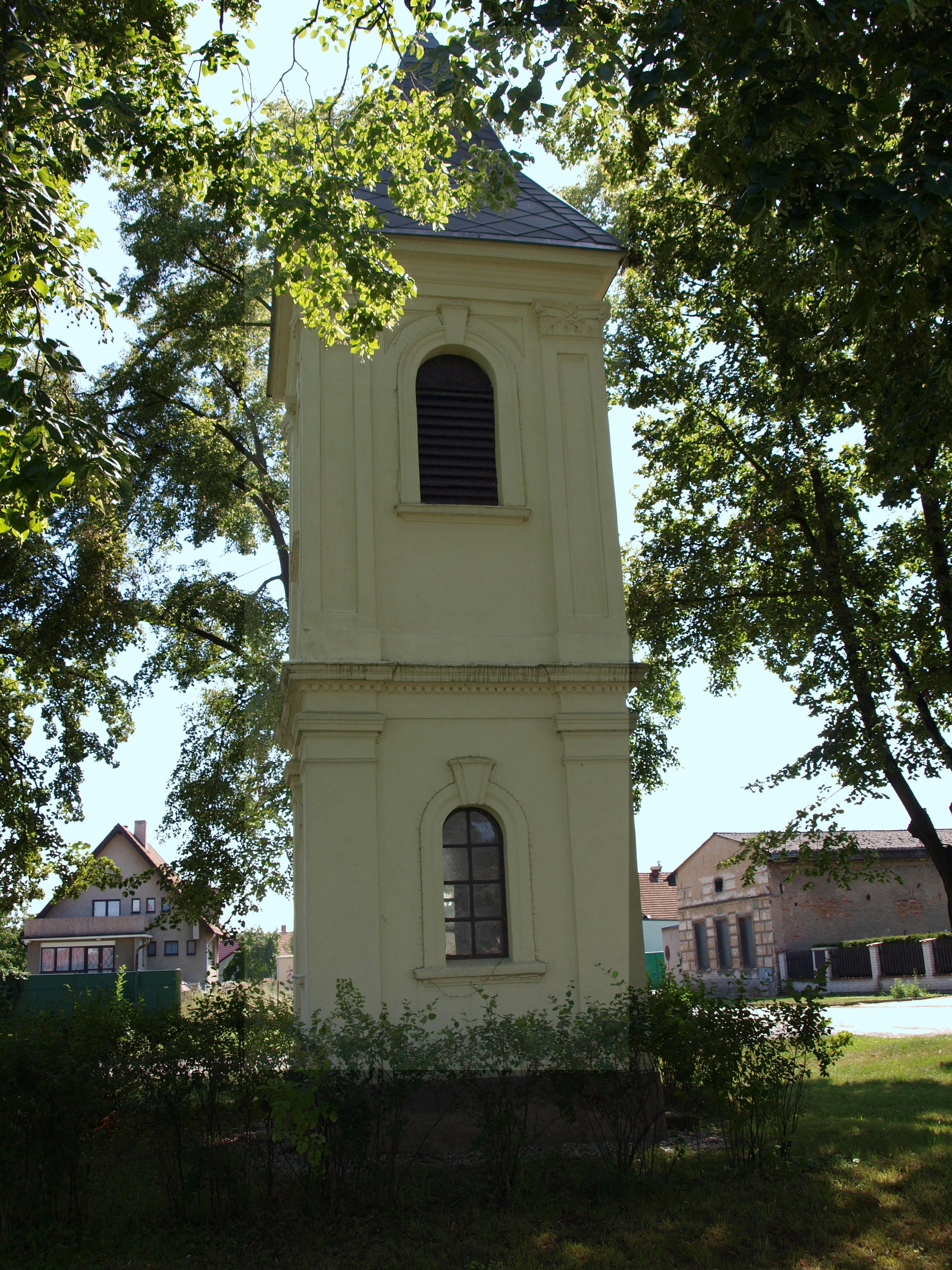 Campanile at village square, Křečkov, Nymburk District, Central Bohemian Region